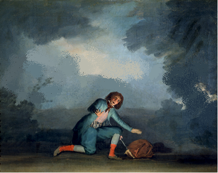 Scene from a Comedy